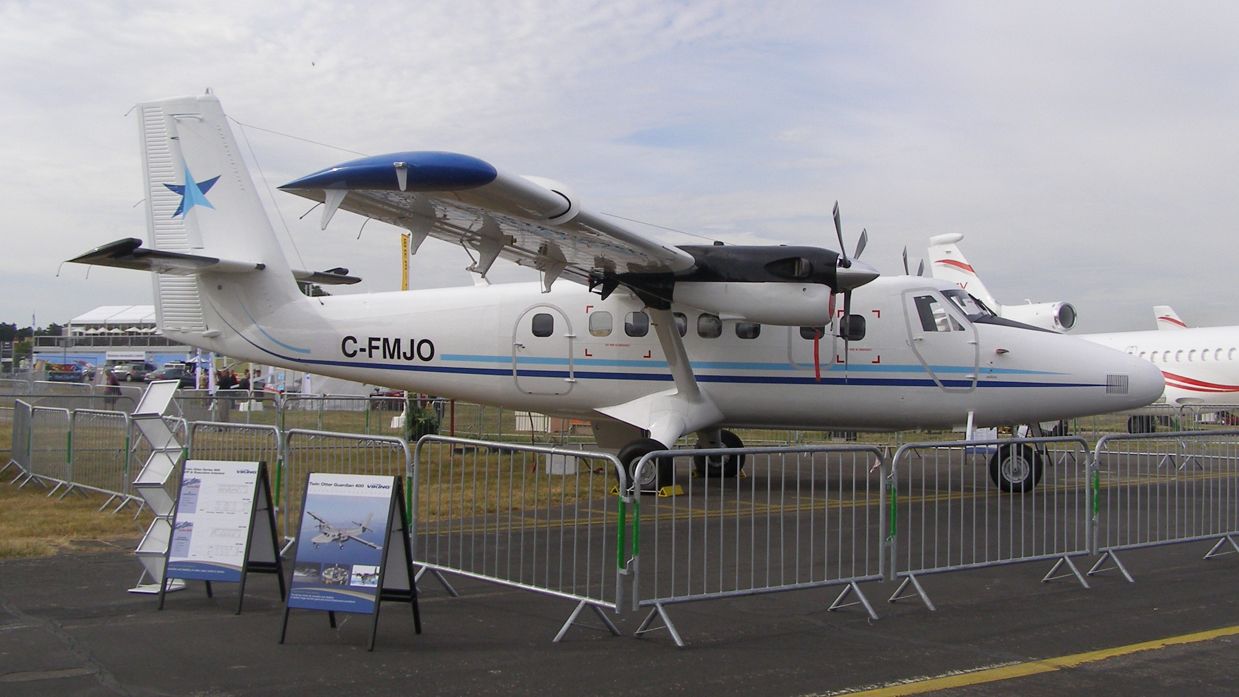 C-FMJO is one of the first Viking Air DHC-6 Twin Otter Series 400 built in 2010 and on display at the 2010 Farnborough Air Show